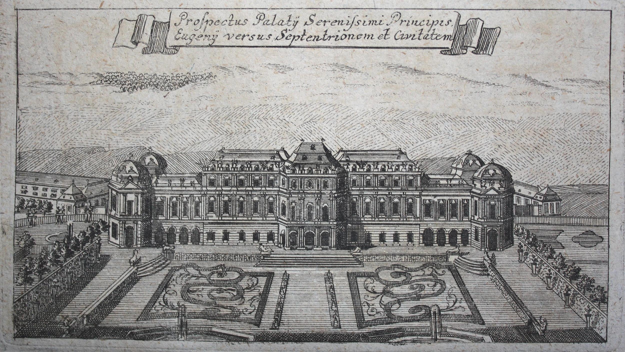 Prospectus Palatii Serenissimi Principis Eugenii versus Septentrionem et Civitatem. Prospect of Belvedere Castle. Engraving ca. 1753.